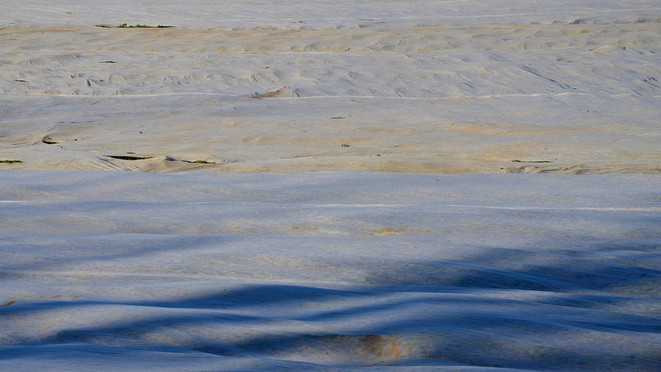 Sven Kierst, Das Meer bei Kappeshamm, art photography, 2013, 66 cm x 120 cm